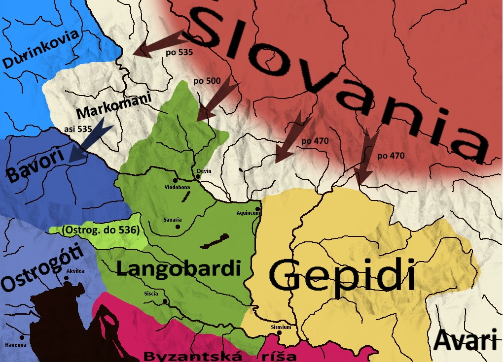 Pannonia basin/Dunau river and local powers, slavic migration in 5th-6th century, based on Ottov historický atlas Slovensko, p. 48